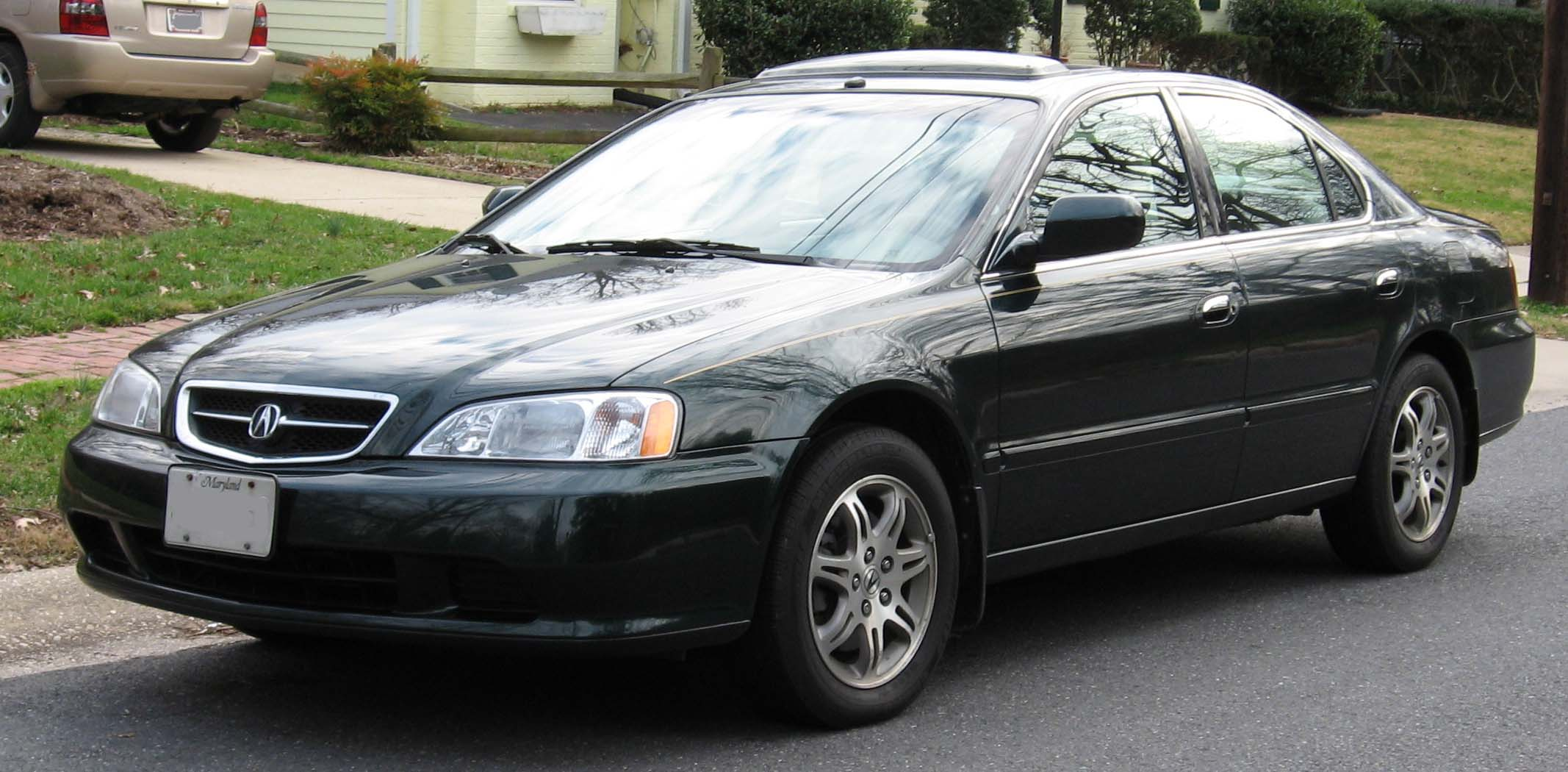 1999-2001 Acura TL photographed in USA.